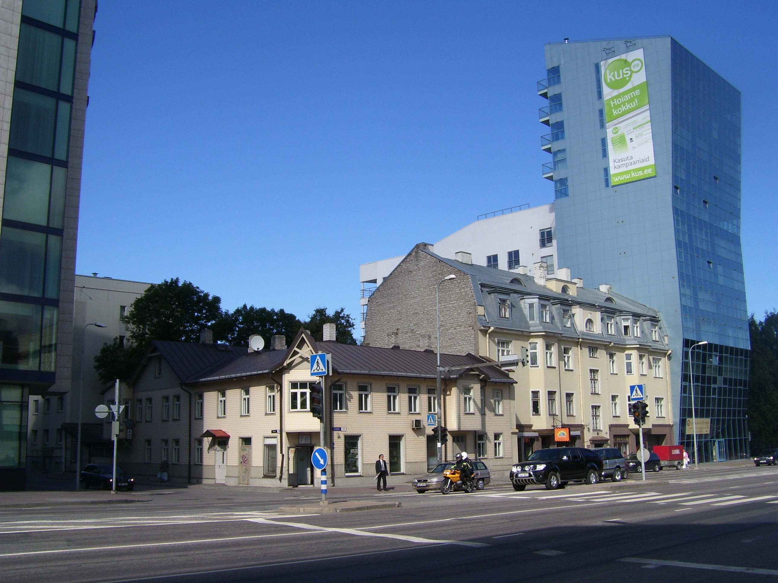 The quarter of Tatari, Tallinn, Estonia. The crossing of Tatari street and Liivalaia street, view from the Liivalaia street to the north.